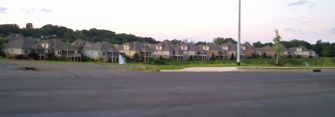 Condo development in north Johnson City, Tennessee.